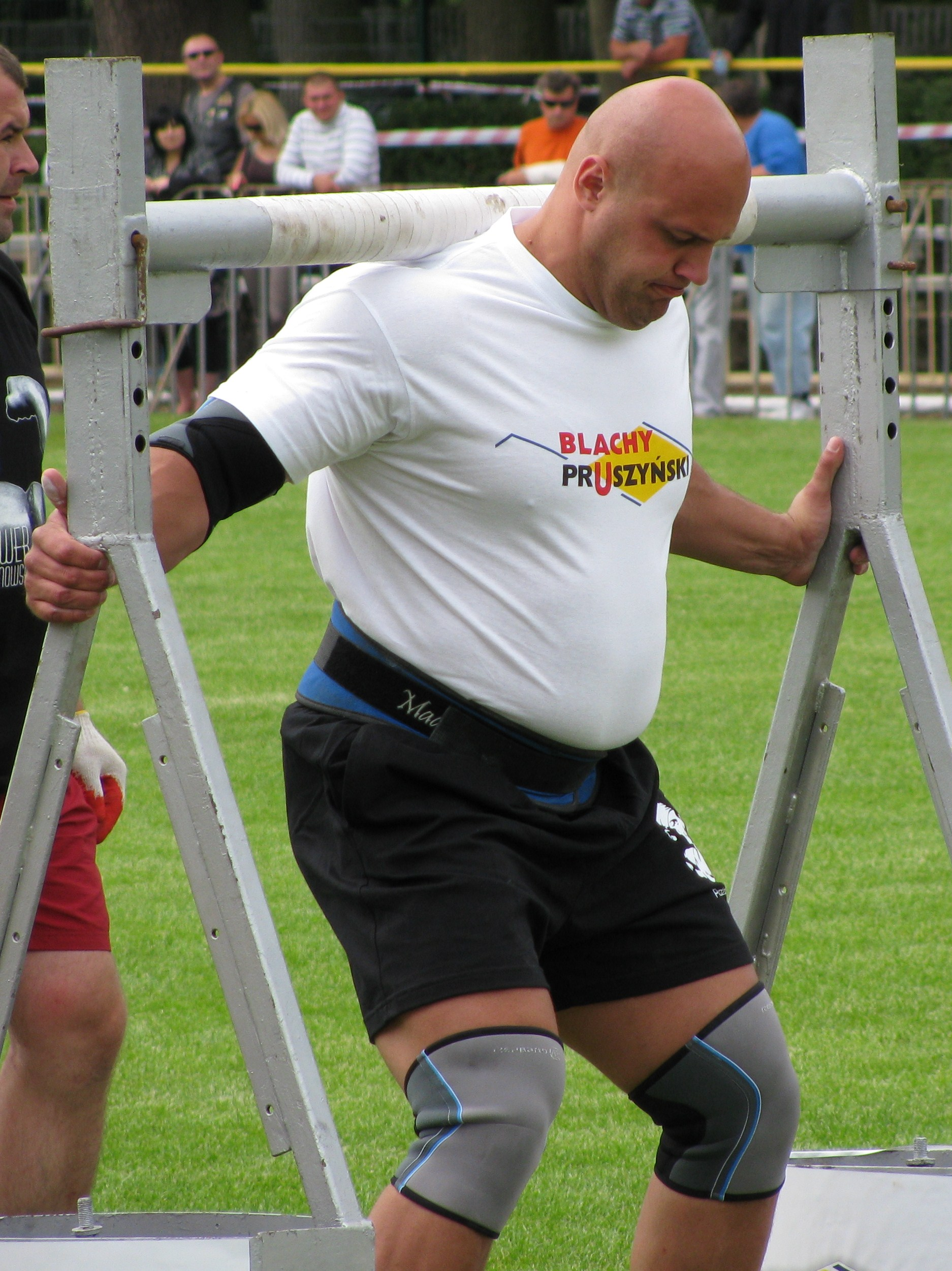 Tomasz Zocholl - a strength athlete from Poland